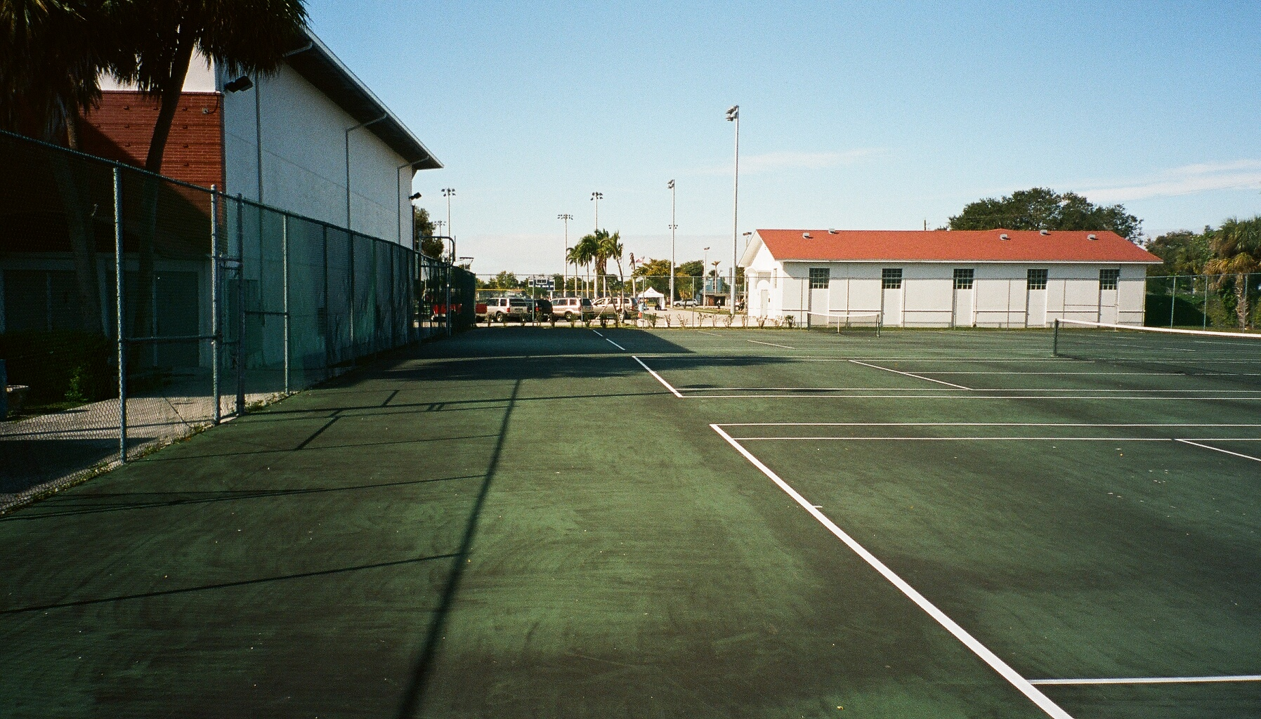 Christopher Columbus High School tennis courts